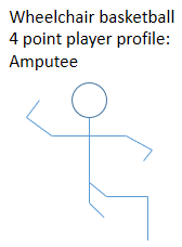 Created using information from . ISOD amputee class: A3 IWBF class: 4 point player